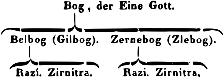 Basic divine hierarchy and cosmology in Slavic religion, as reconstructed by Georg Friedrich Creuzer and Franz Joseph Mone (1822).